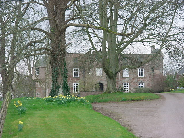 'Treago', St Weonards, Herefordshire A closer view of this fortified manor house showing one of its rounded towers on the left of the building